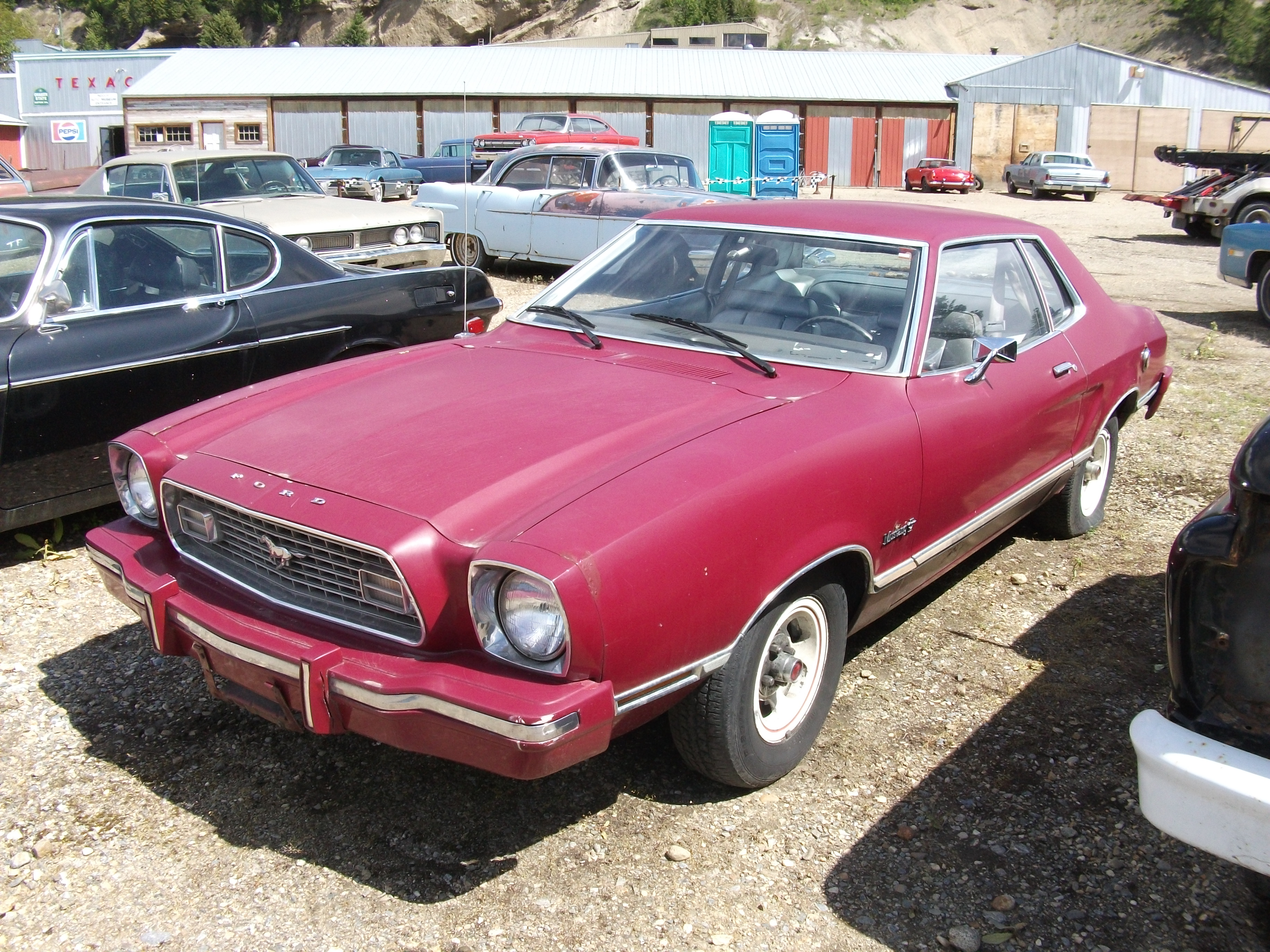 Late 70s Ford Mustang II